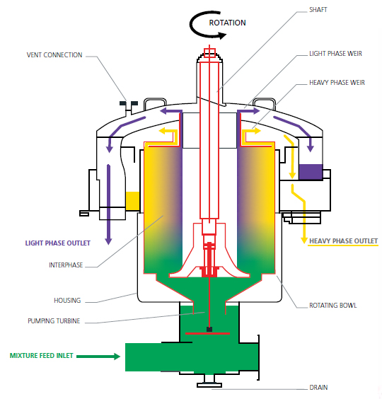 Monostage centrifugal extractor